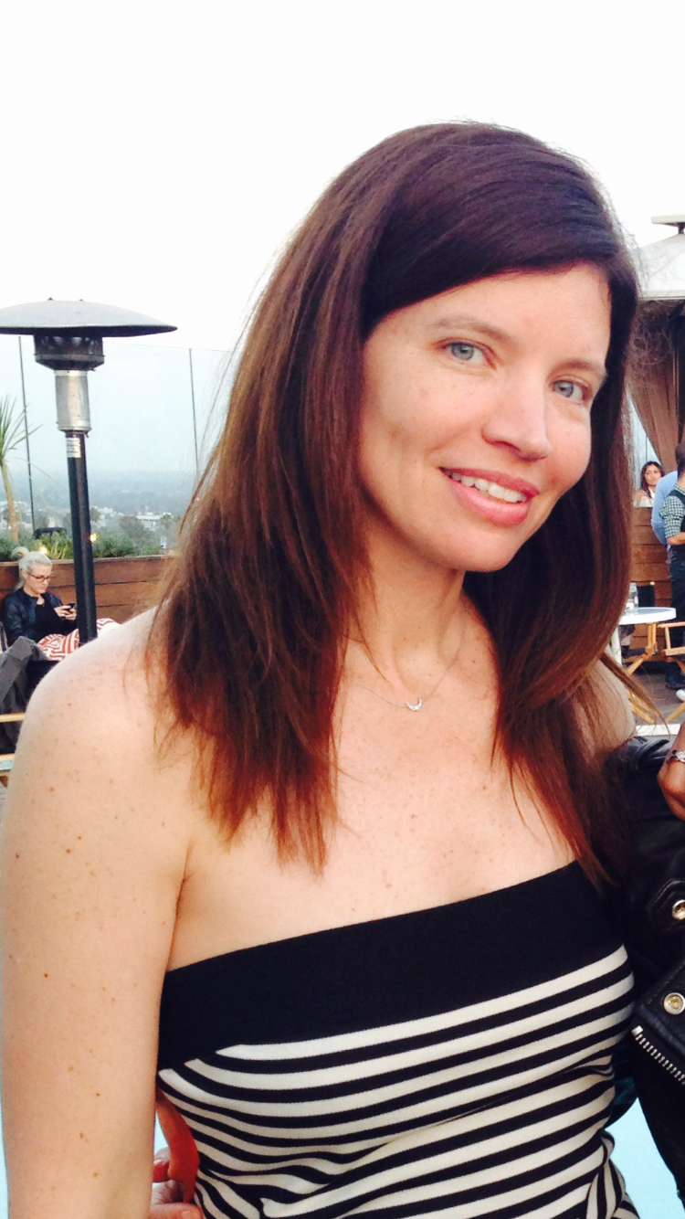 director Jamie Babbit